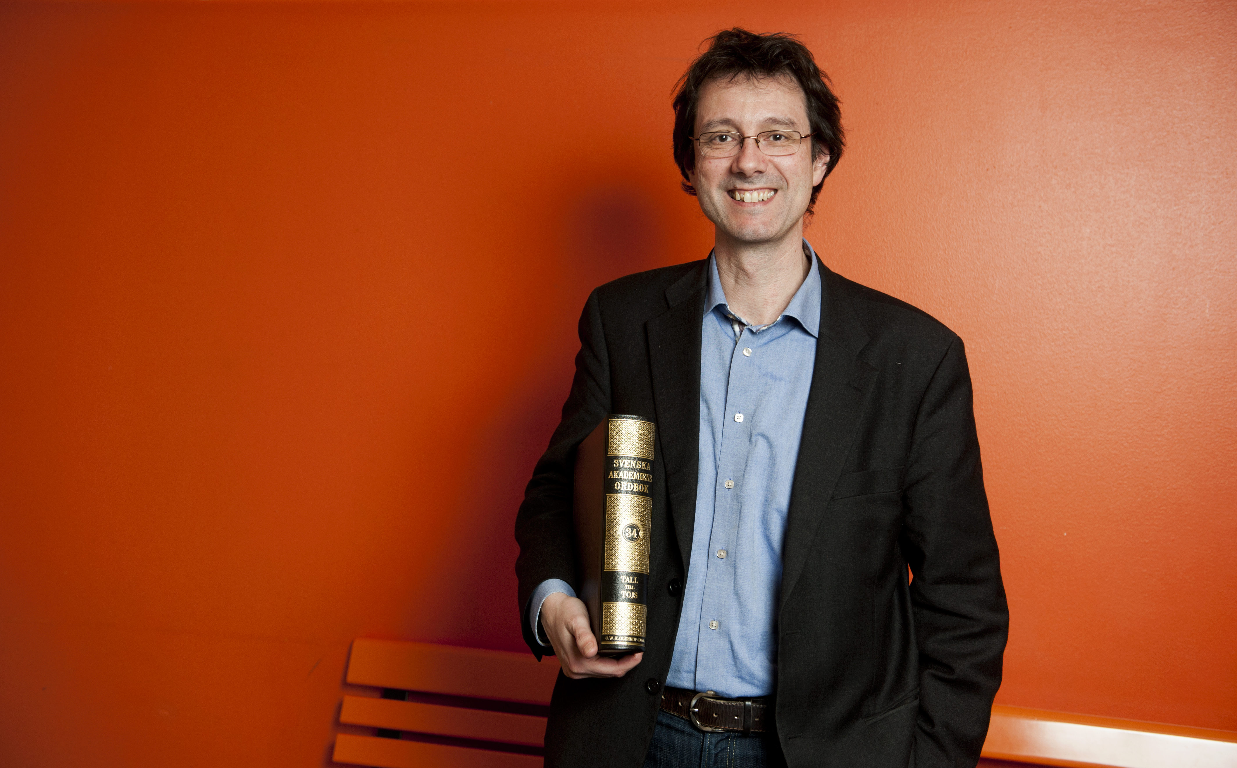 Tomas Riad, ledamot i Svenska Akademien och professor i nordiska språk. Keywords: Data-uid: 00da7db56dc34aab8d9e644121d5d562